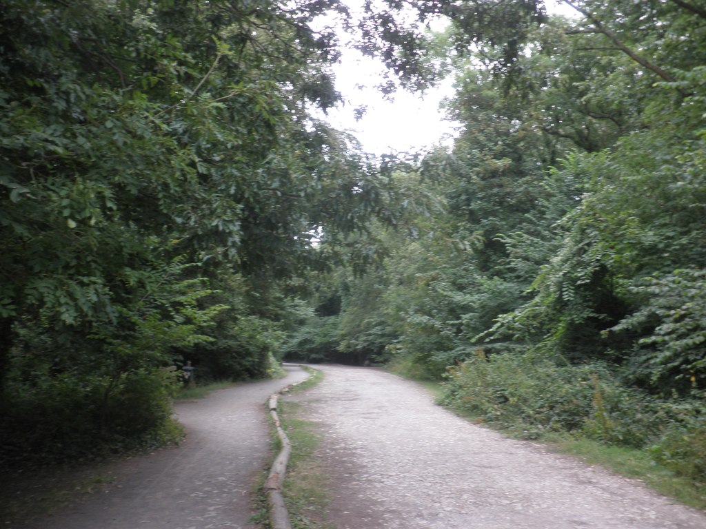 Highest point on Worlebury Hill